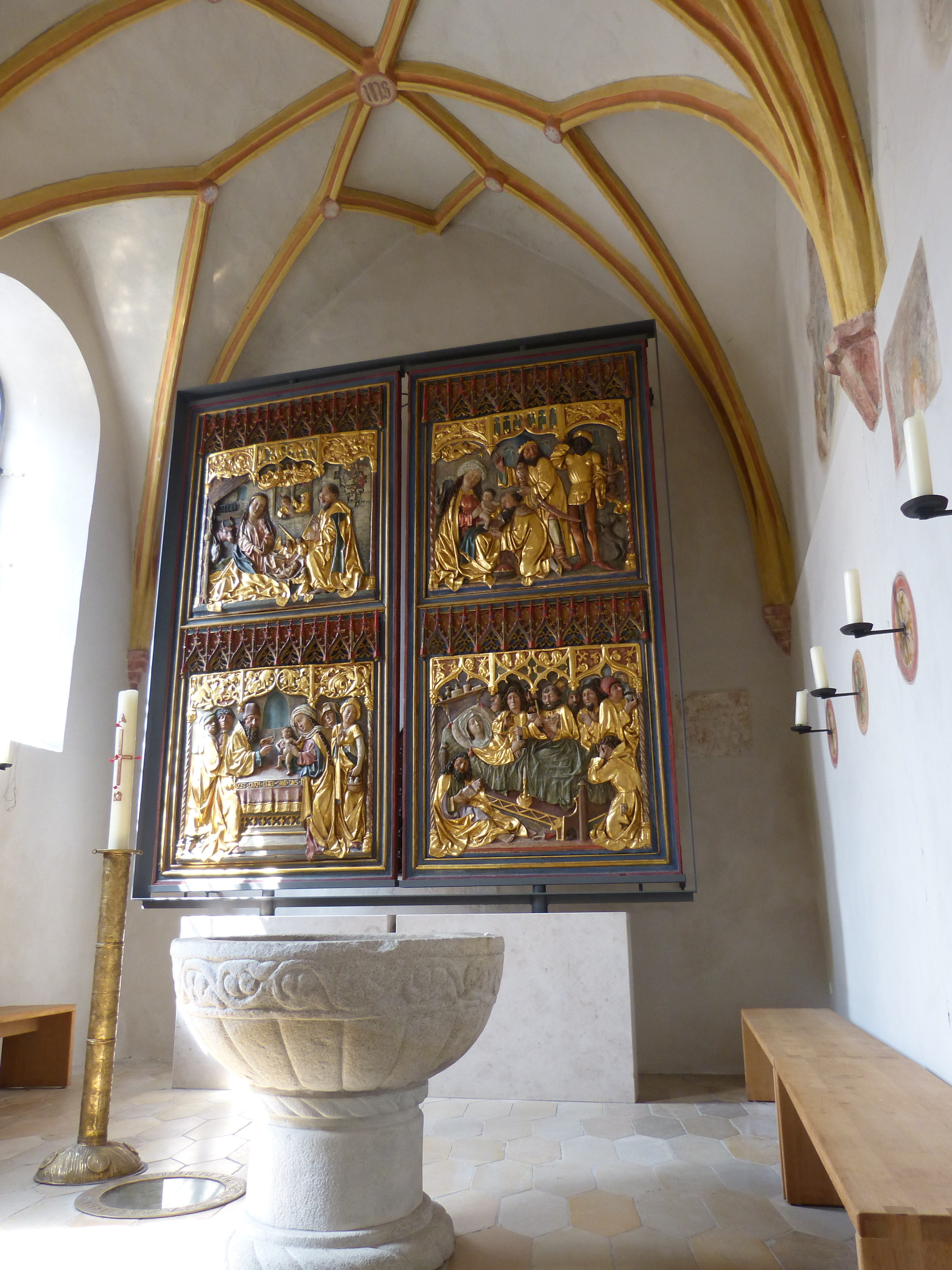 Landau an der Isar ( Lower Bavaria ). Mary Assumption parish church: Gothic chapel of Saint Joseph with altar of Mary ( 15th century ) and romanesque baptismal font ( 13th century )